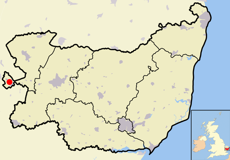 Location map of Newmarket, Suffolk, UK, made by Grutness based on File:Suffolk outline map with UK.png by Jhamez84